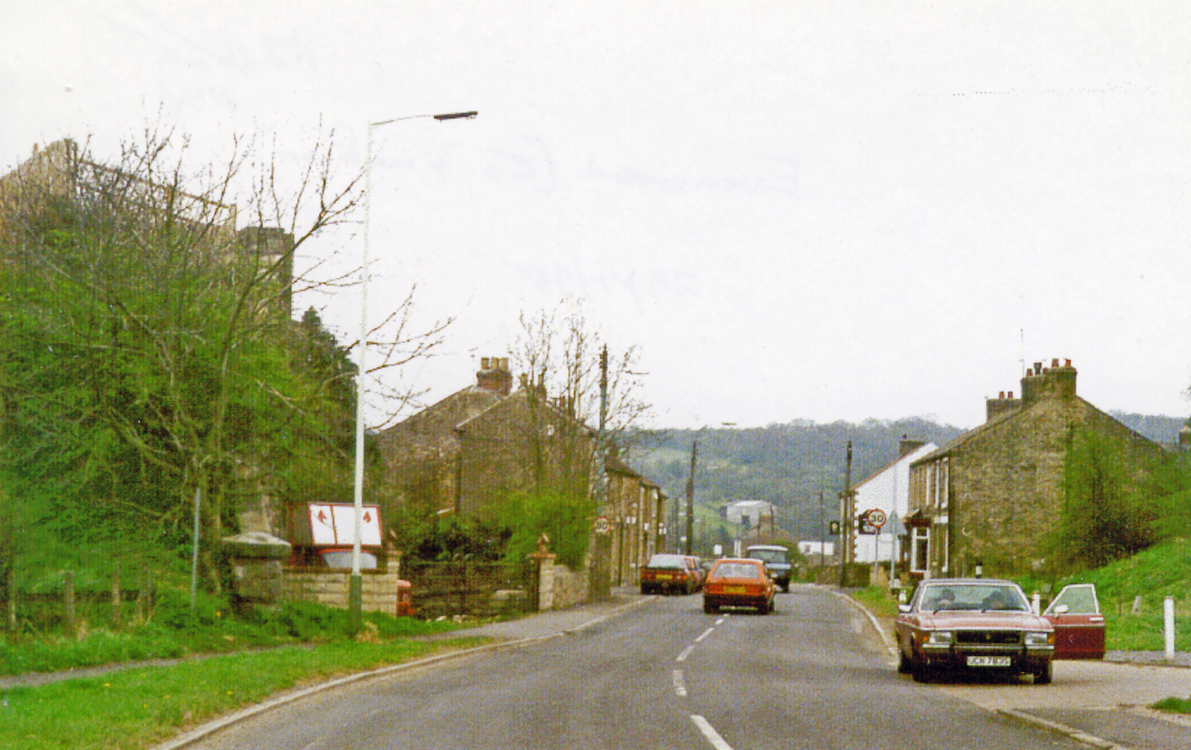 At Ramshaw near site of Evenwood station, 1995. Evenwood station on the ex-NER Bishop Auckland - Barnard Castle line had been off to the left, but had been closed to passengers 14/10/57 and the line abandoned since 18/6/62 - which makes this a typically non-descript contemporary scene in County Durham.